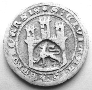 Seal of Lviv City (14th c.) Lemburg, 1359 - photograph